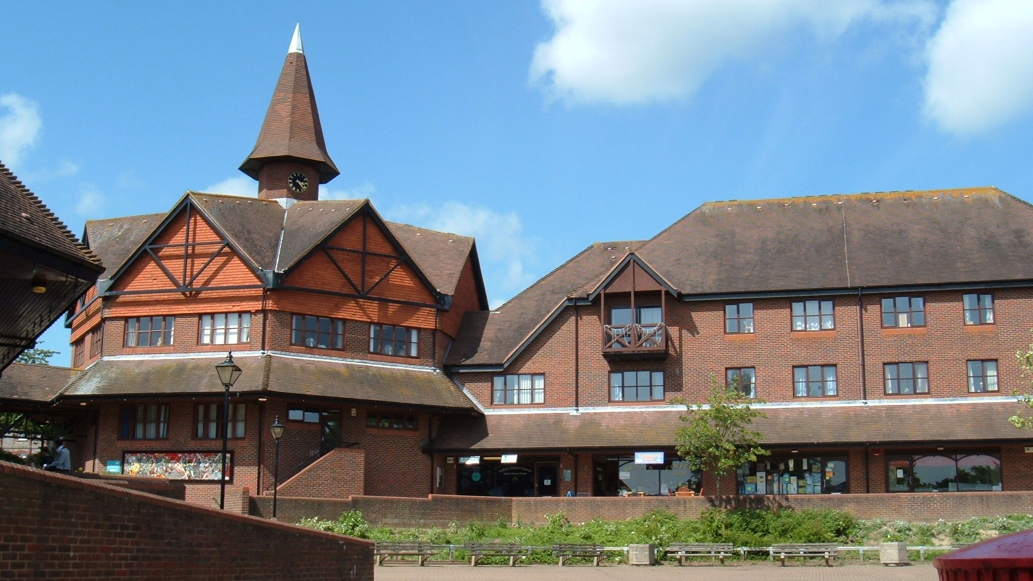 A modern shopping development intended to harmonise with the original town. Battle, East Sussex, England. Taken by contributor June 2006.